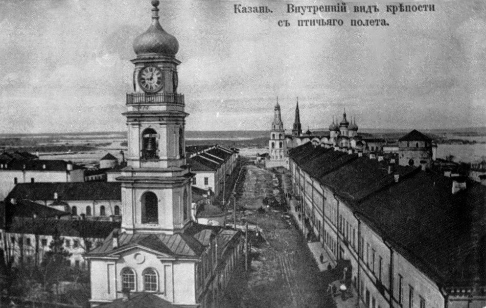 At the left – belfry of Transfiguration monastery (demolished after 1917)of Kazan Kremlin. At the right – Annunciation cathedral with a belfry (demolished after 1917)